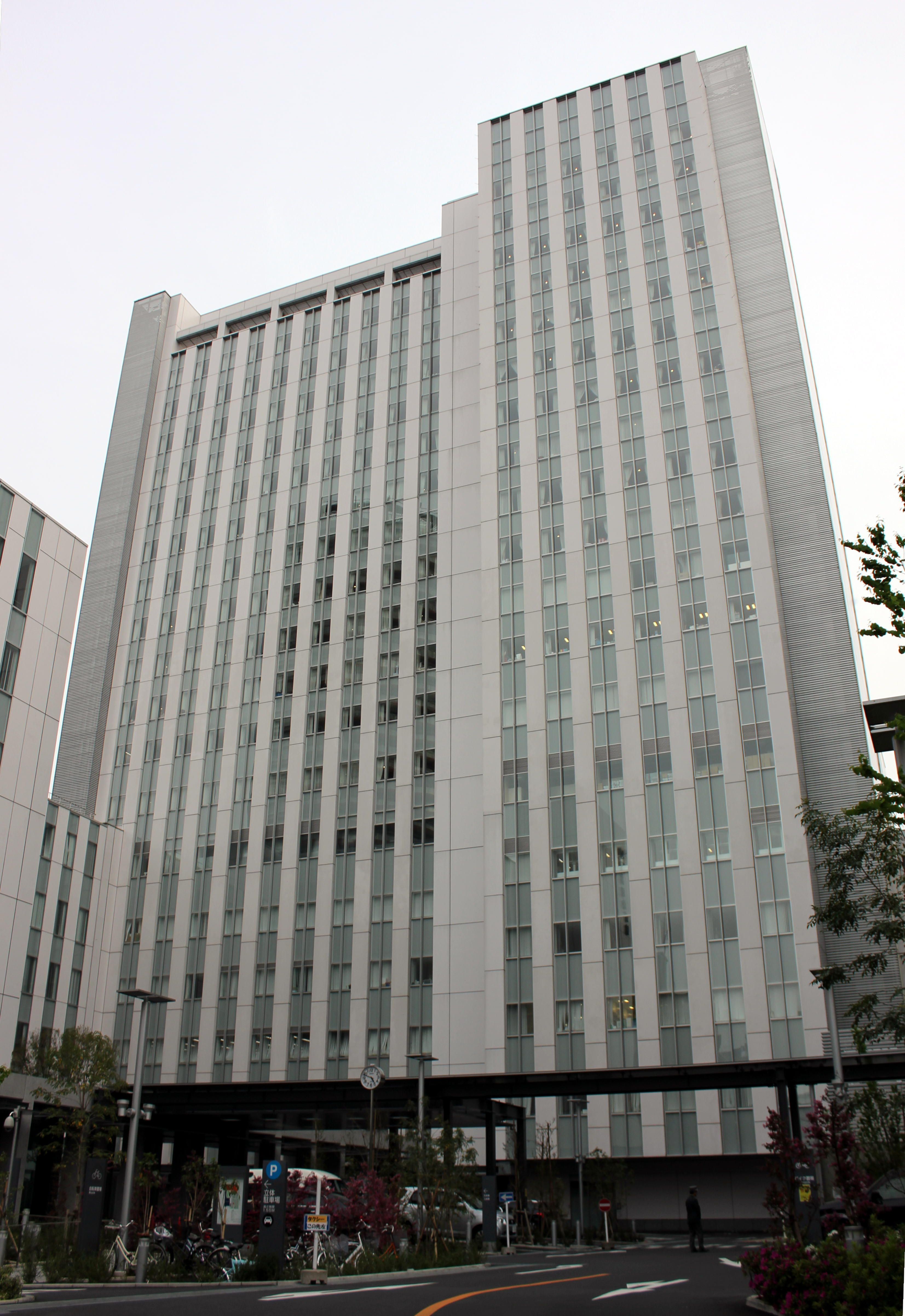 Mitsui Memorial Hospital